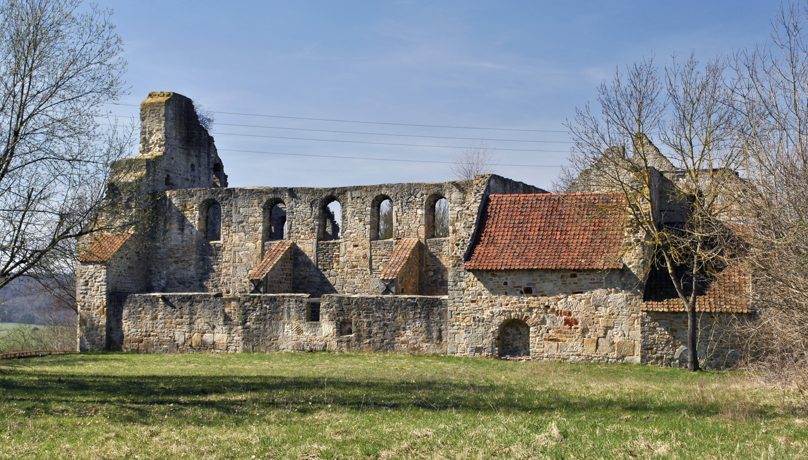 Full south-easterly view of Walbeck Abbey Church, Germany.